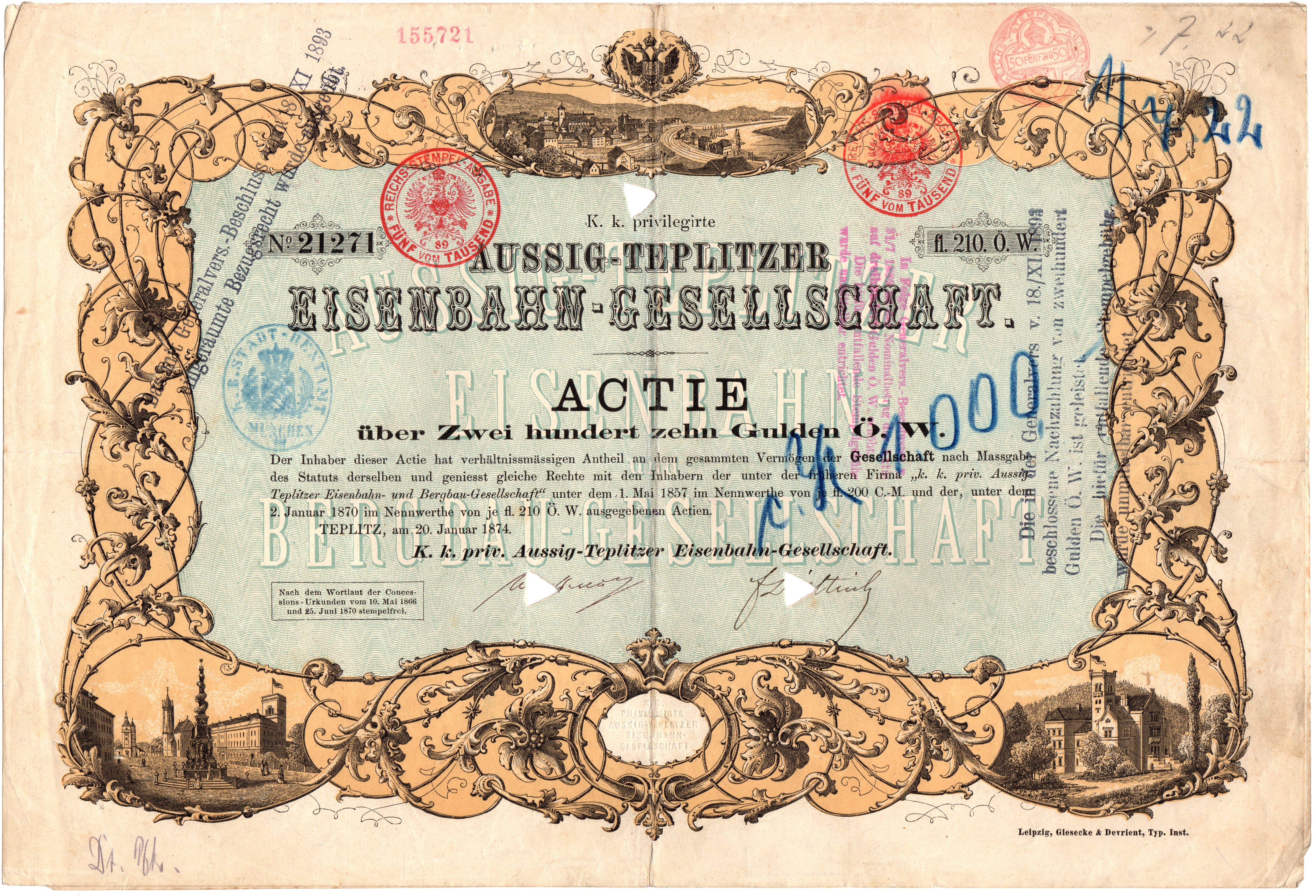 Share of the Aussig-Teplitzer Eisenbahn-Gesellschaft, issued 20. January 1874